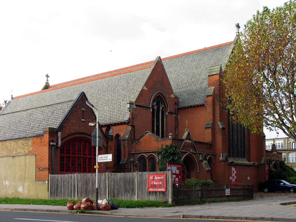 St James, St James Avenue, London W13